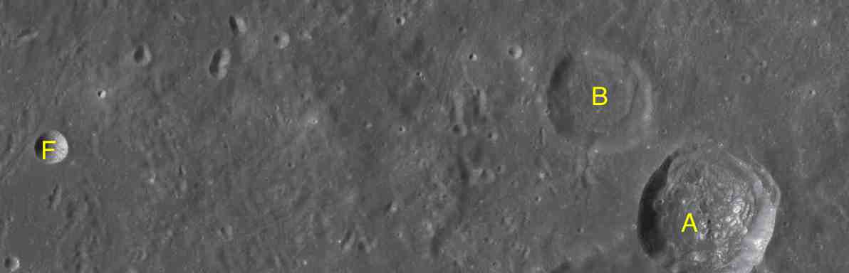 Part of the chart LAC-75 used for the presentation